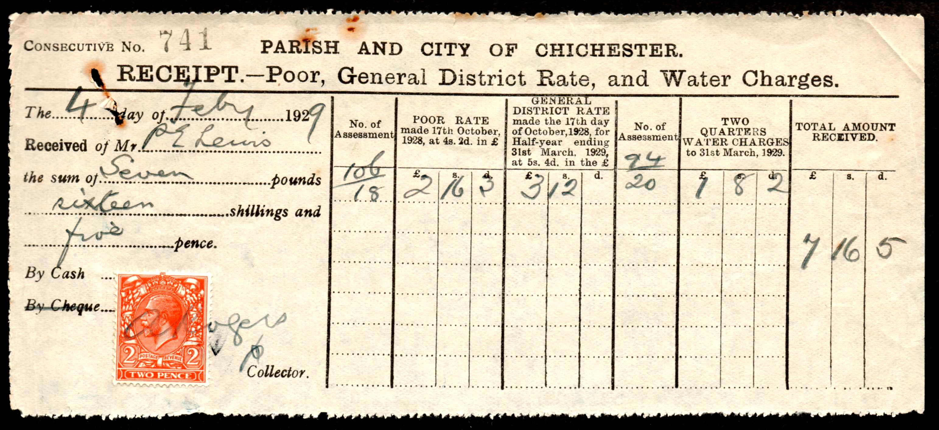 1929 receipt for Chichester local rates (taxes) including poor rate, general rate and water charges and a revenue stamp for the tax due on the receipt.